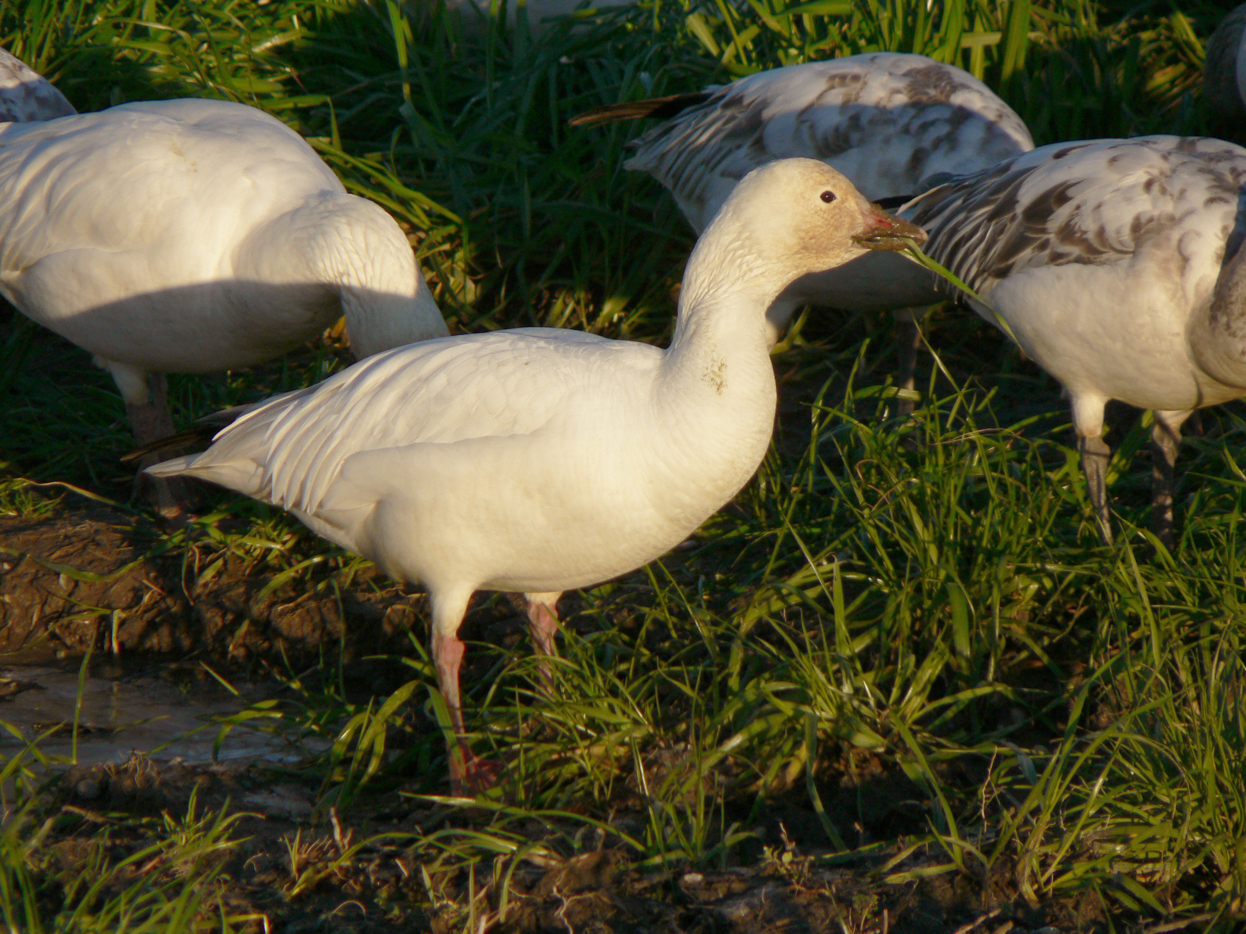 Lesser Snow Goose